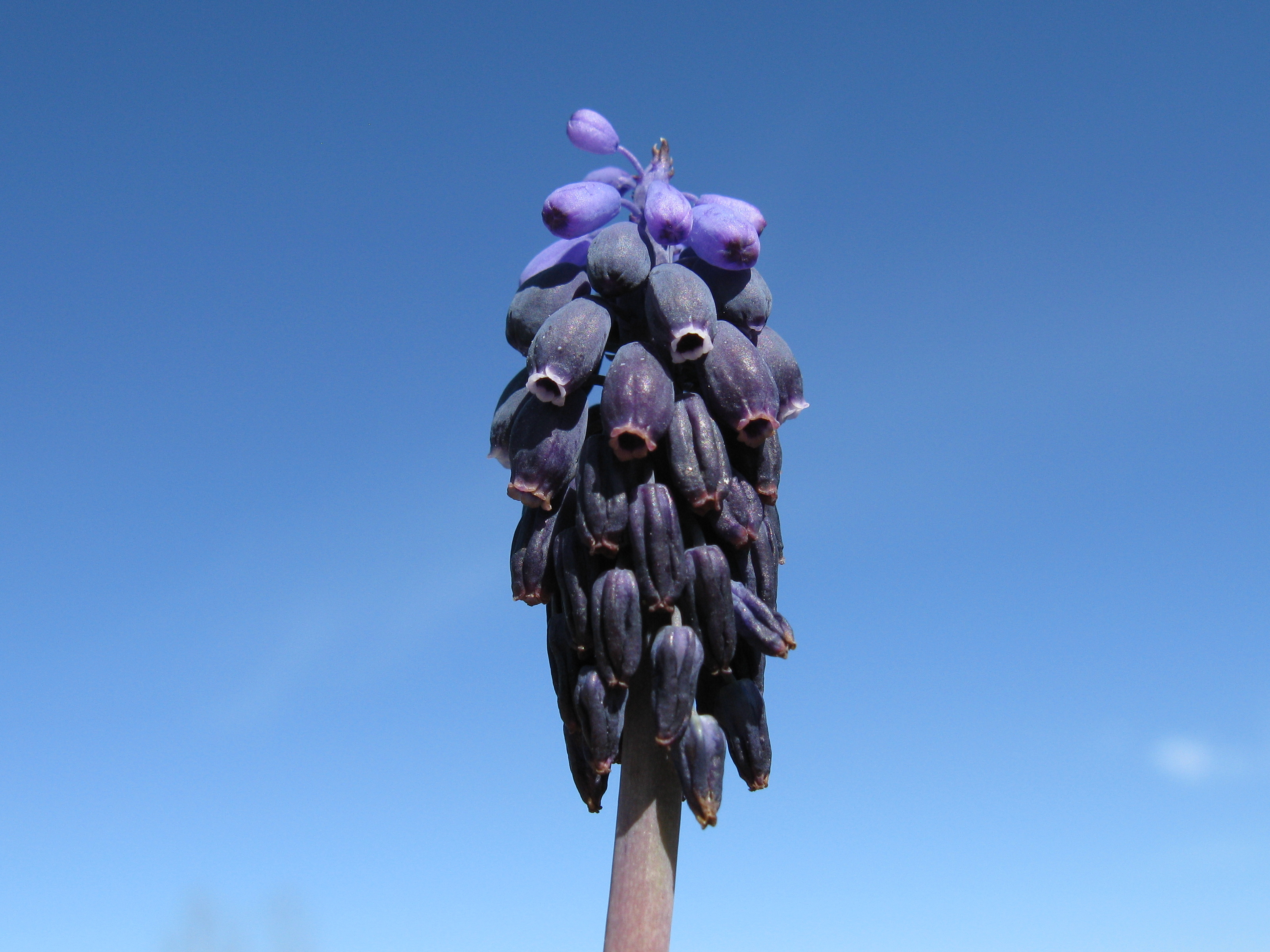 Introduced, cool season, perennial bulbous herb to 45 cm tall. Leaves several in number are basal, linear and annual. Flowerheads are racemes with the uppermost flowers sterile. Flowers are scented, dark blue with paler or white lobes and 4–6 mm long; the perianth is tubular, urceolate-globose, with sharply contracted mouth and 6 short lobes. A native of SE Eur & Asia Minor, it is an ornamental that has become naturalised on the Southern Tablelands and is a probable weed of the future.